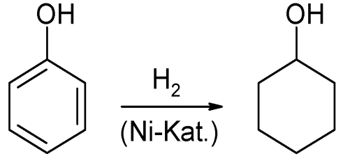 Reaction scheme of the synthesis of cyclohexanol